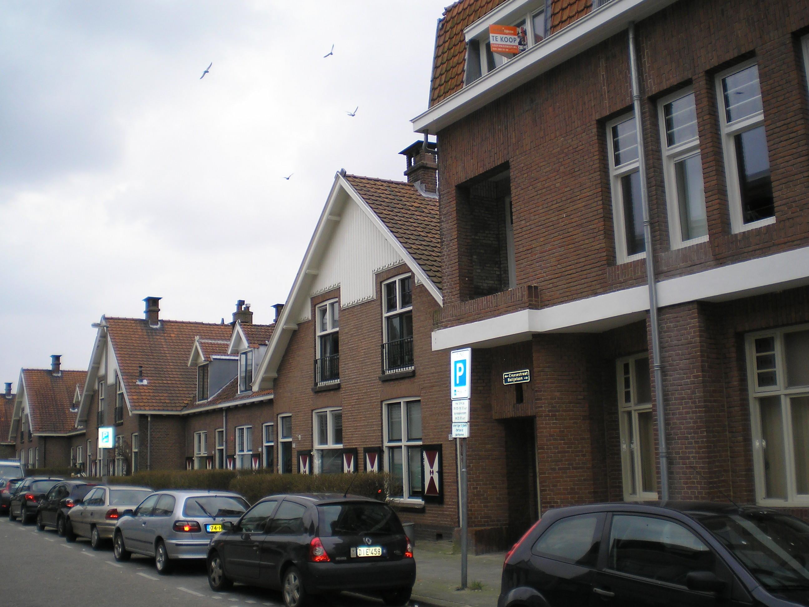 Croesestraat in Utrecht in the Netherlands